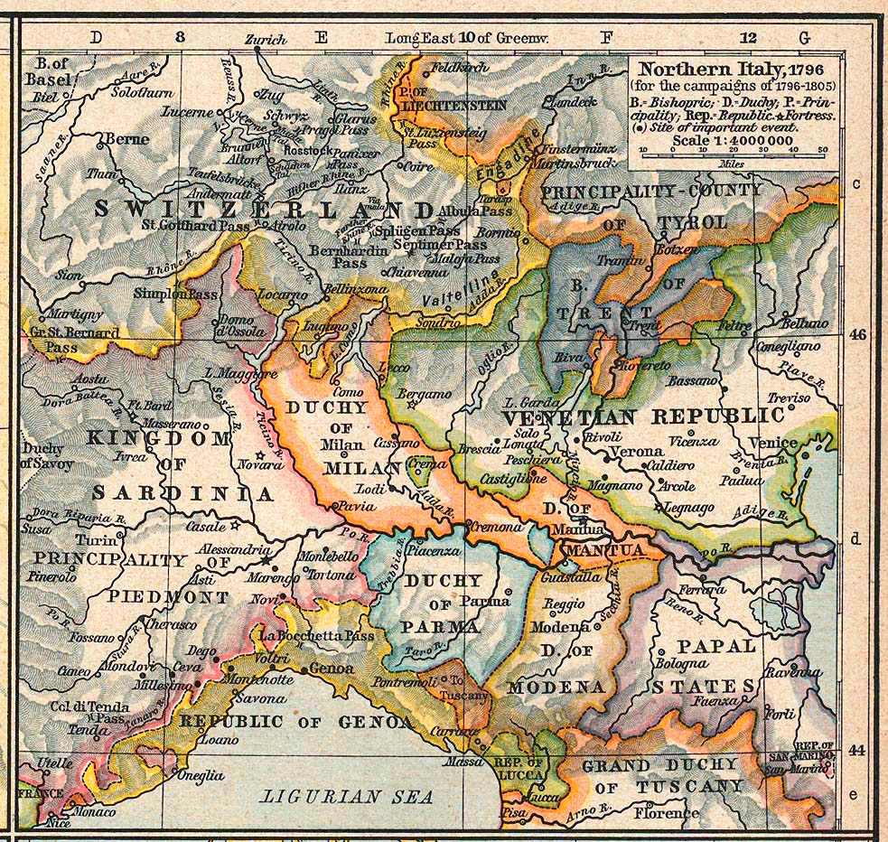 Northern Italy, 1796 (for the campaigns of 1796-1805)